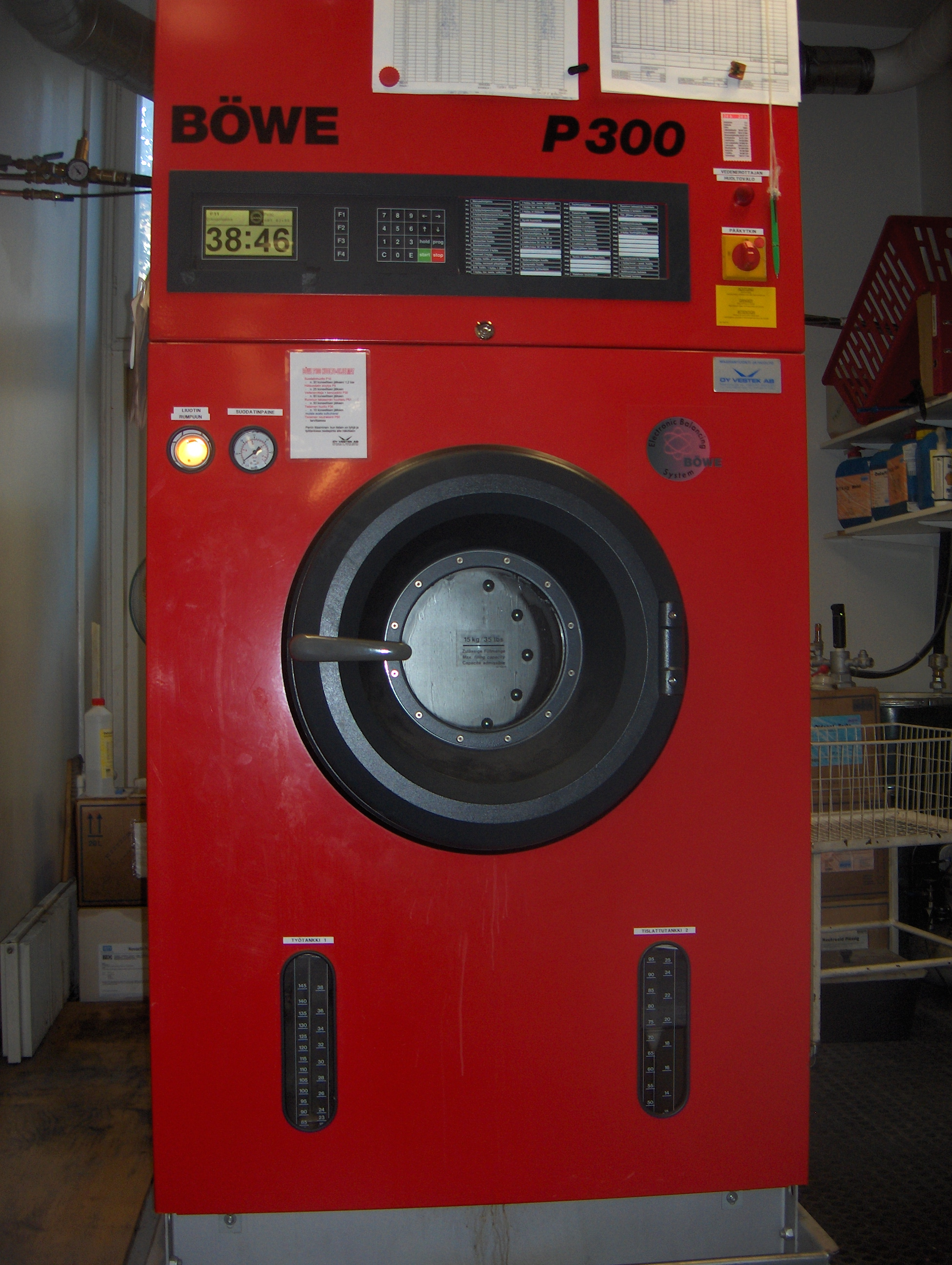 Dry cleaning machine Serier 3 P300 BÖWE TEXTILE CLEANING GERMANY